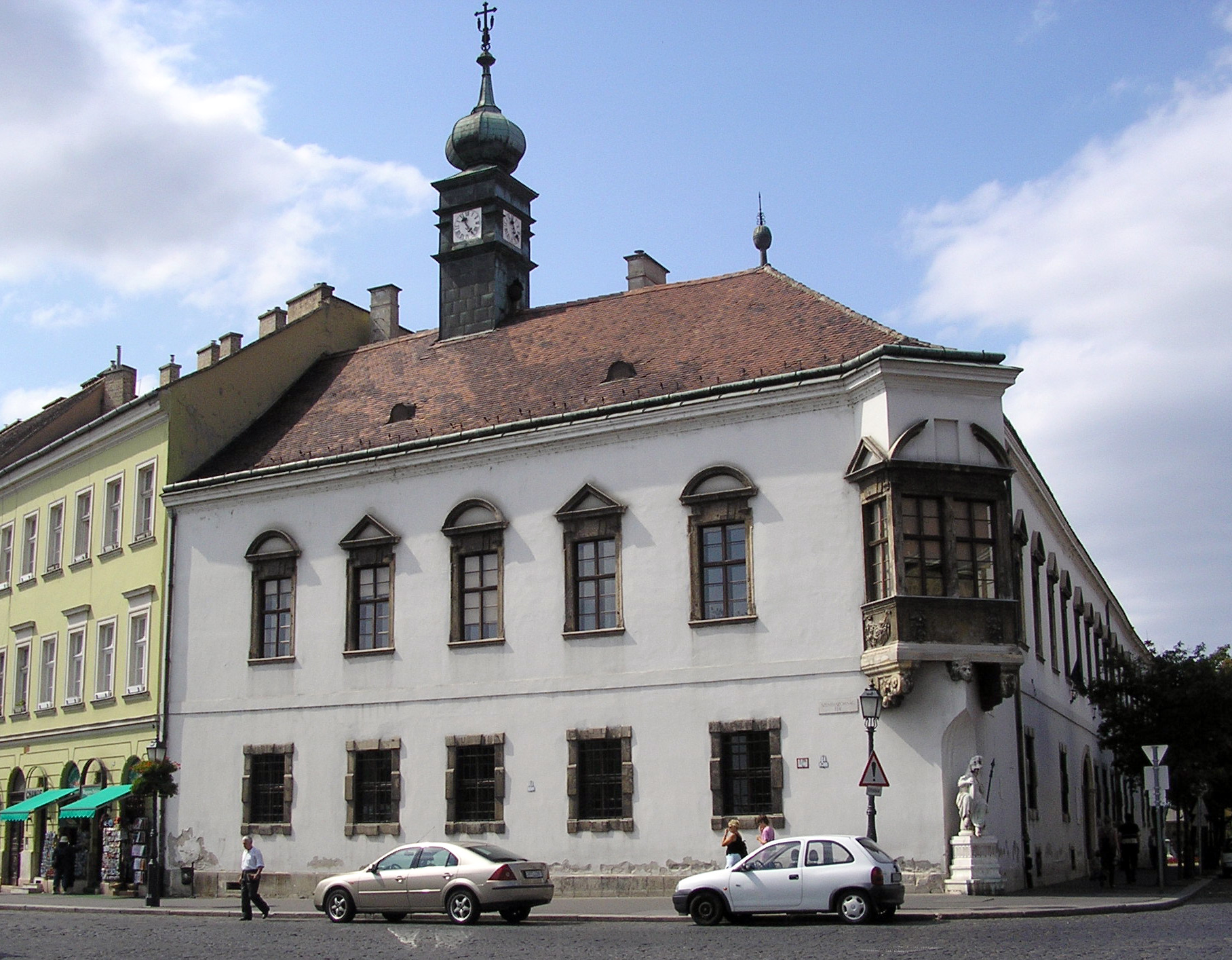 The old townhall in the Buda Castle (Budapest)